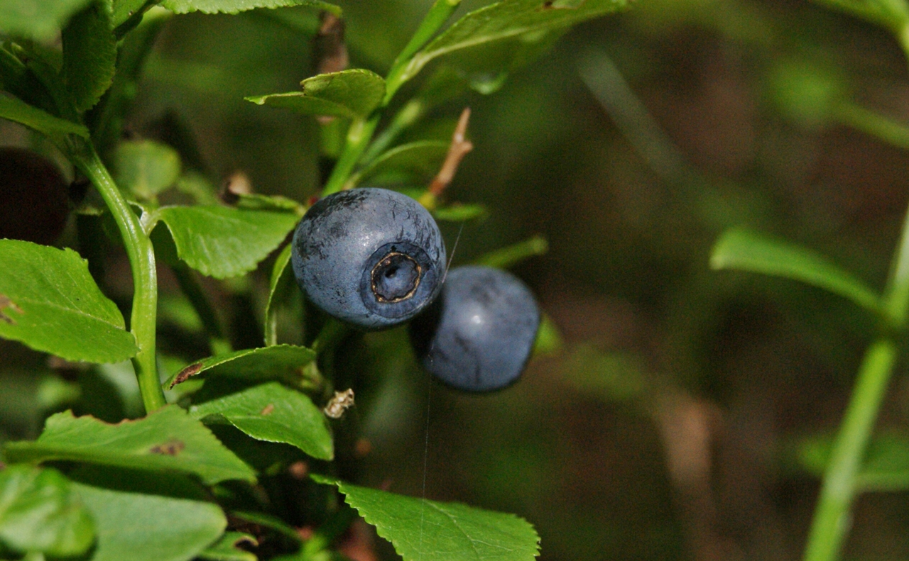 Vaccinium myrtillus